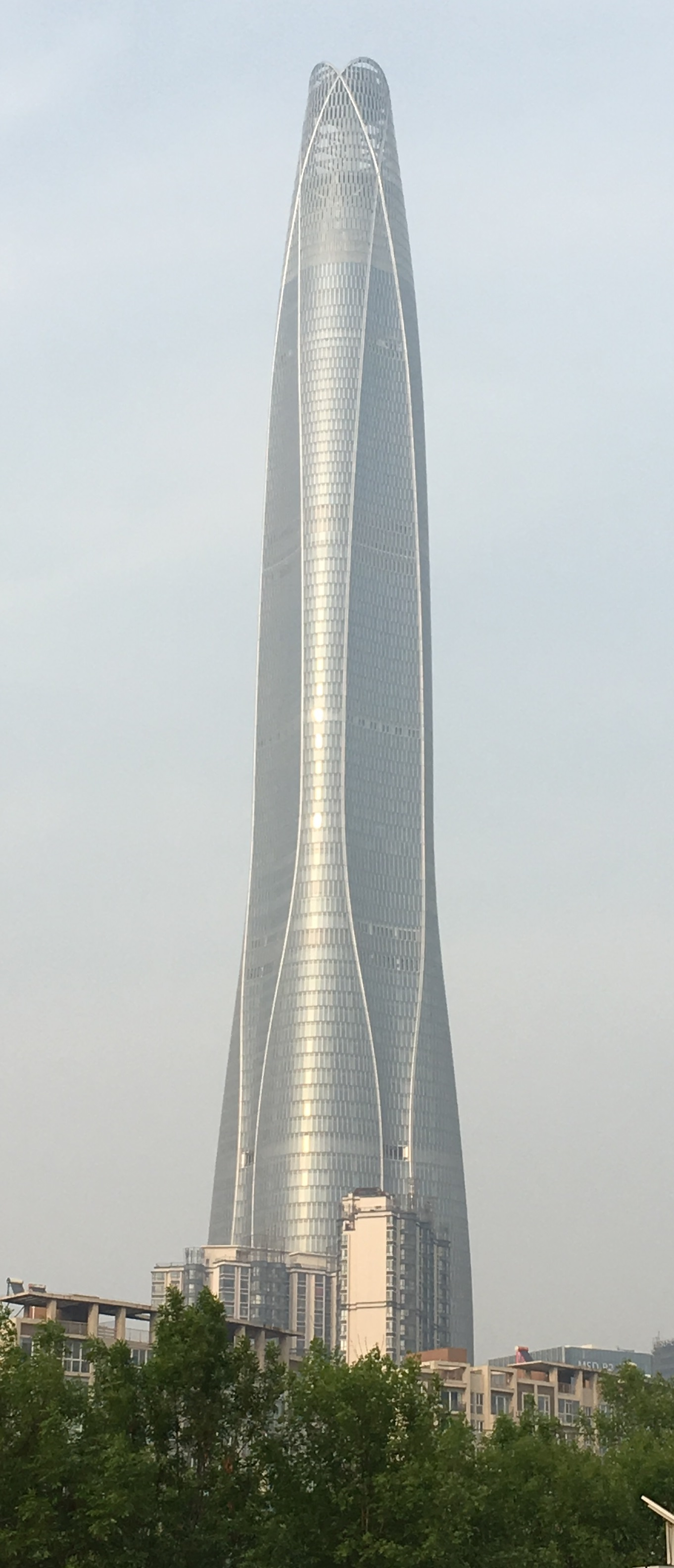 Tianjin CTF Finance Centre from the direction of the Binhai Cultural Centre.